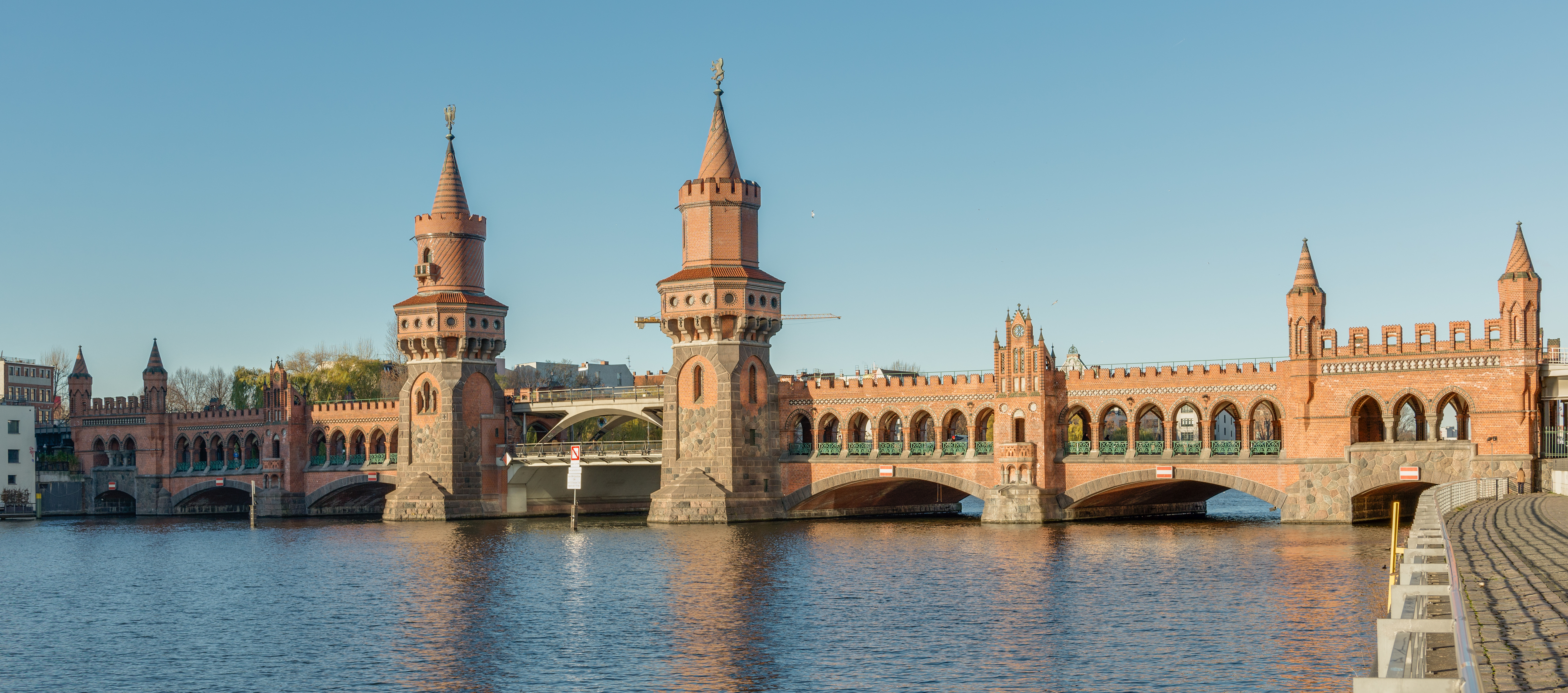 Oberbaum Bridge, Berlin, Germany